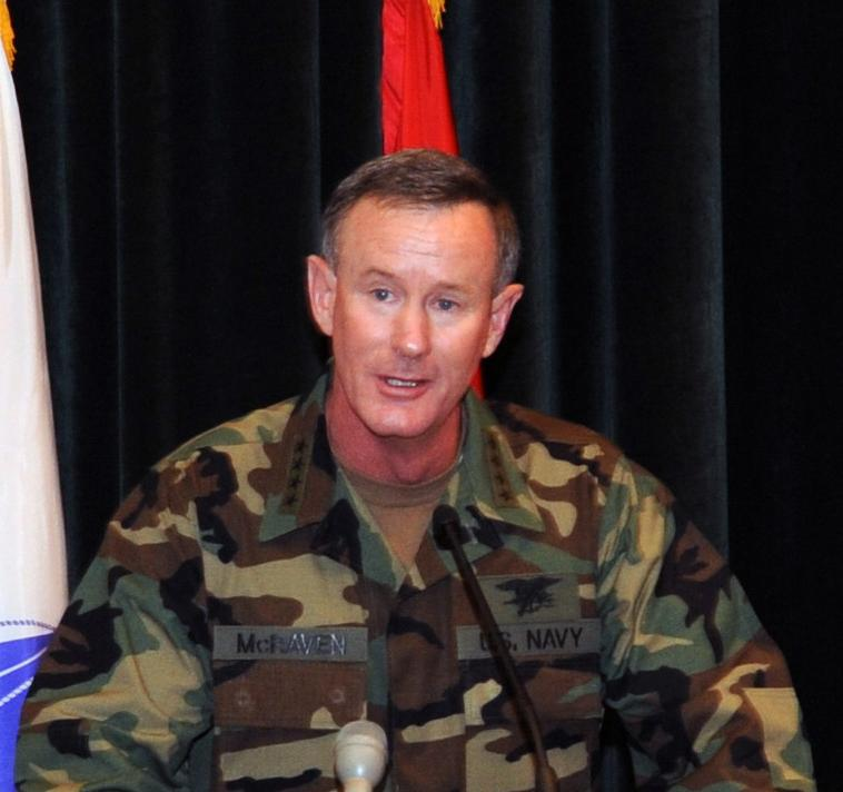 Adm. William H. McRaven gives remarks during the U.S. Special Operations Command change of command ceremony held at the Davis Conference Center, MacDill Air Force Base, FL.